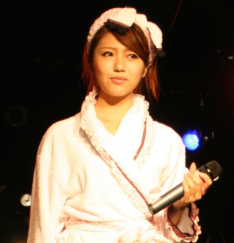 Pile, a Japanese singer and voice actress, at a promotion for her first album "Your is All…" in 2007